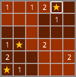 An exam[le for Tentaizu puzzle]